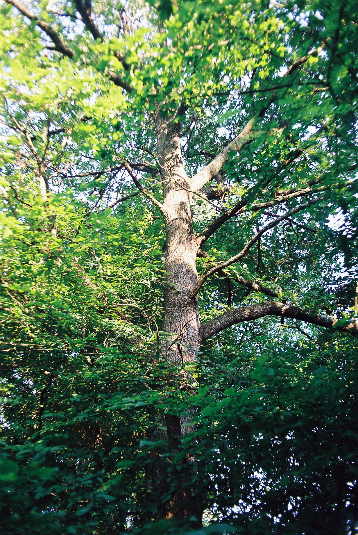 Mature Hungarian oak growing in a closed forest. Picture taken in the village of Lončanik, Central Serbia. Photo Stefan Stojanović.